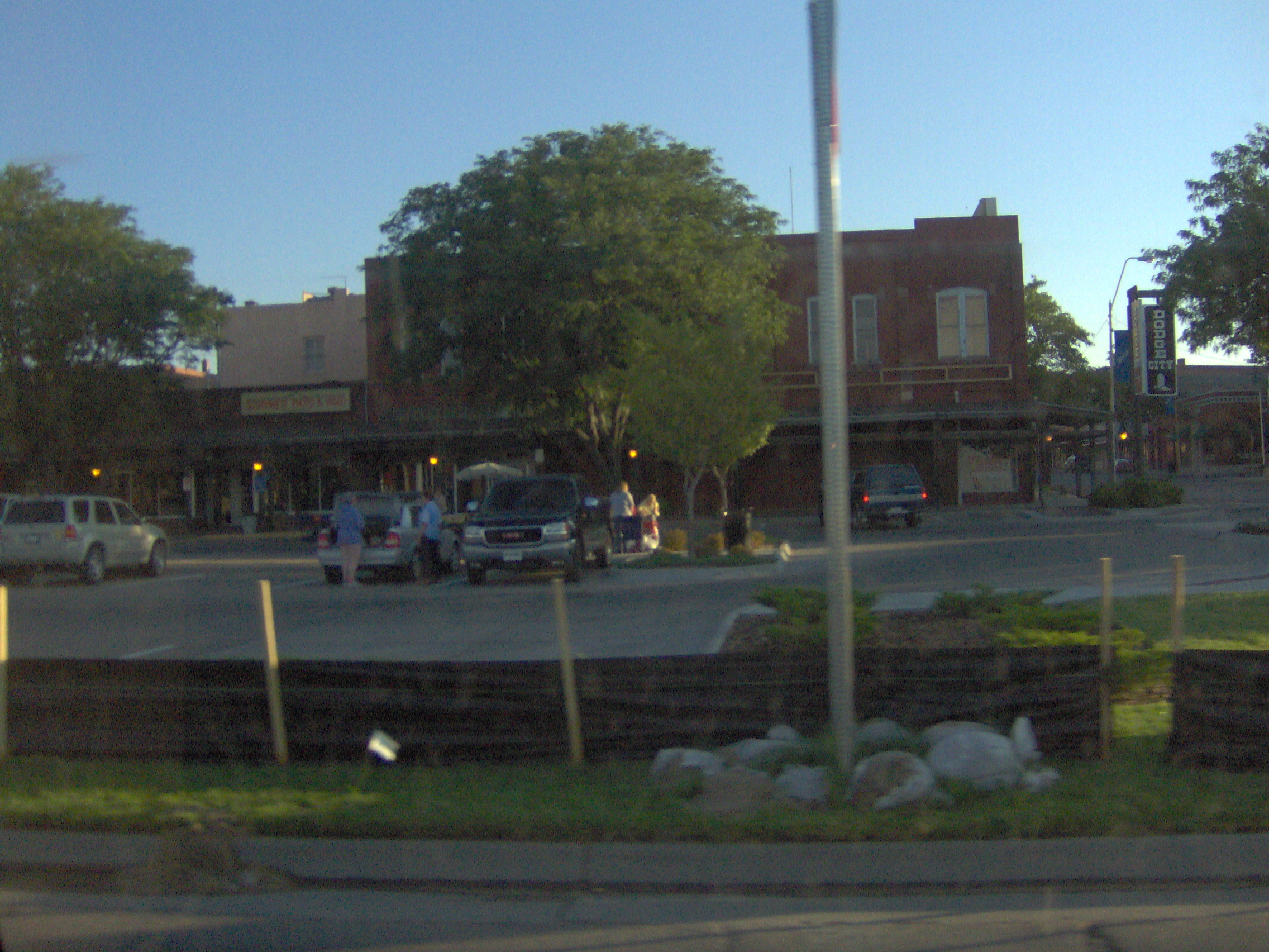 Tourist area in downtown Dodge City, Kansas. Picture taken by Nyttend on 22 July 2006.